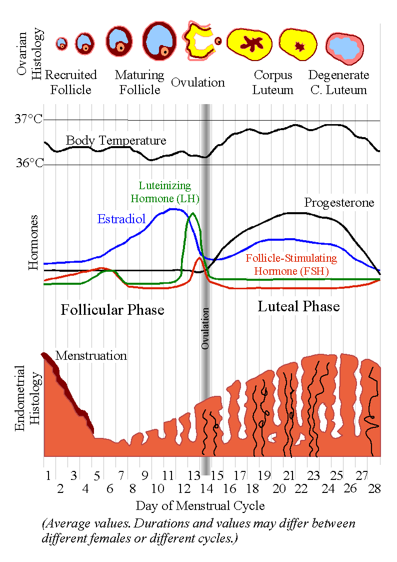 Depicts the variation through the menstrual cycle of the major hormones involved, basal body temperature, and relative endometrial thickness. Created using , vector graphic file available at Image:MenstrualCycle2.sxd